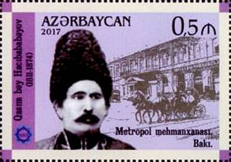 Union of Architects of Azerbaijan. N 1301 - 50 qapik. - There are pictured Gasimbey Hajibababayov and “Metropol” hotel in Baku on the stamps.